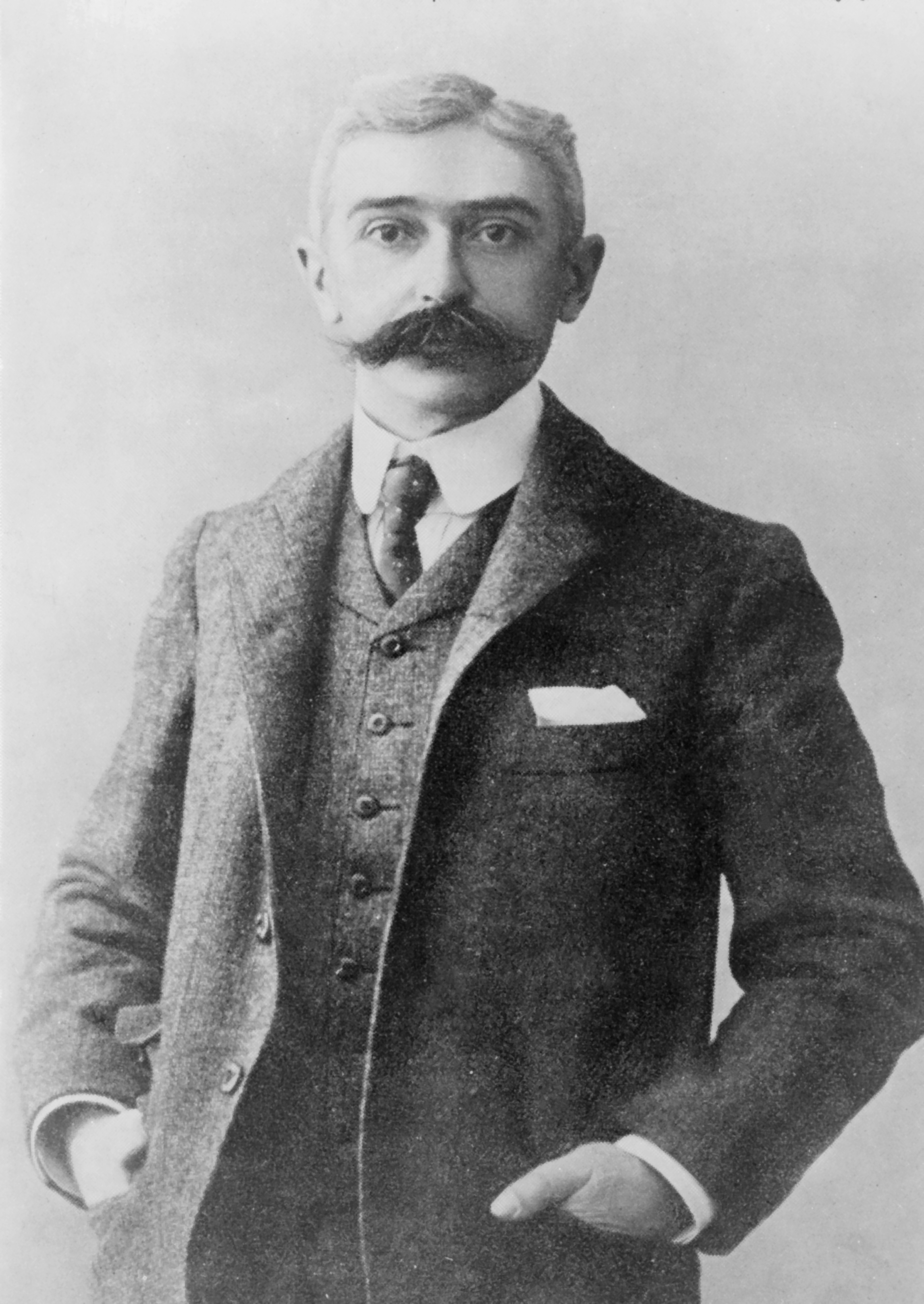 Baron Pierre de Coubertin, half-length portrait, standing, facing front